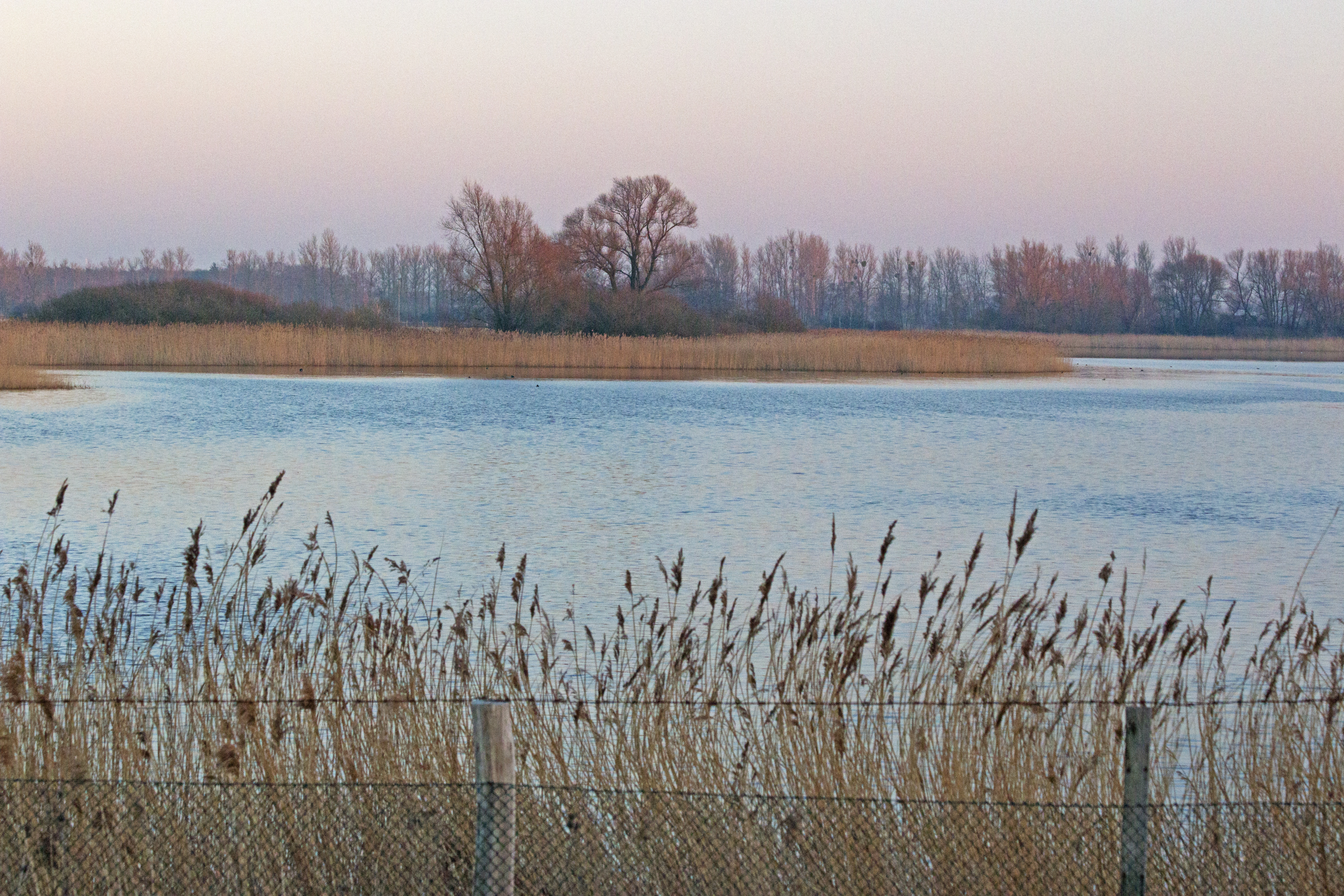 Nature reserve Neolith-Teich